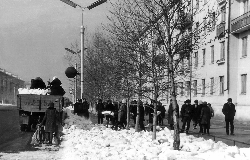 Snow: the main street of Ulan Bator, Mongolia, 1972.